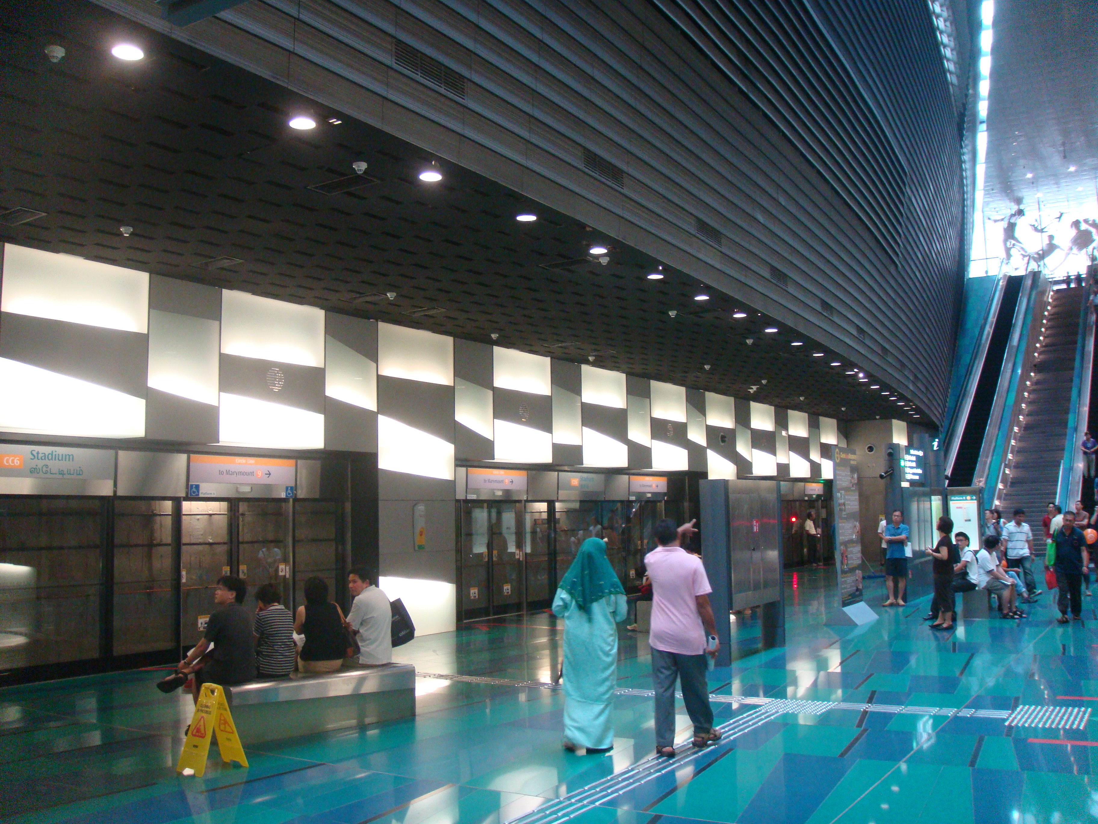 Circle Line platform of Stadium MRT Station (front view), taken on the LTA Circle Line Discovery II Open House.